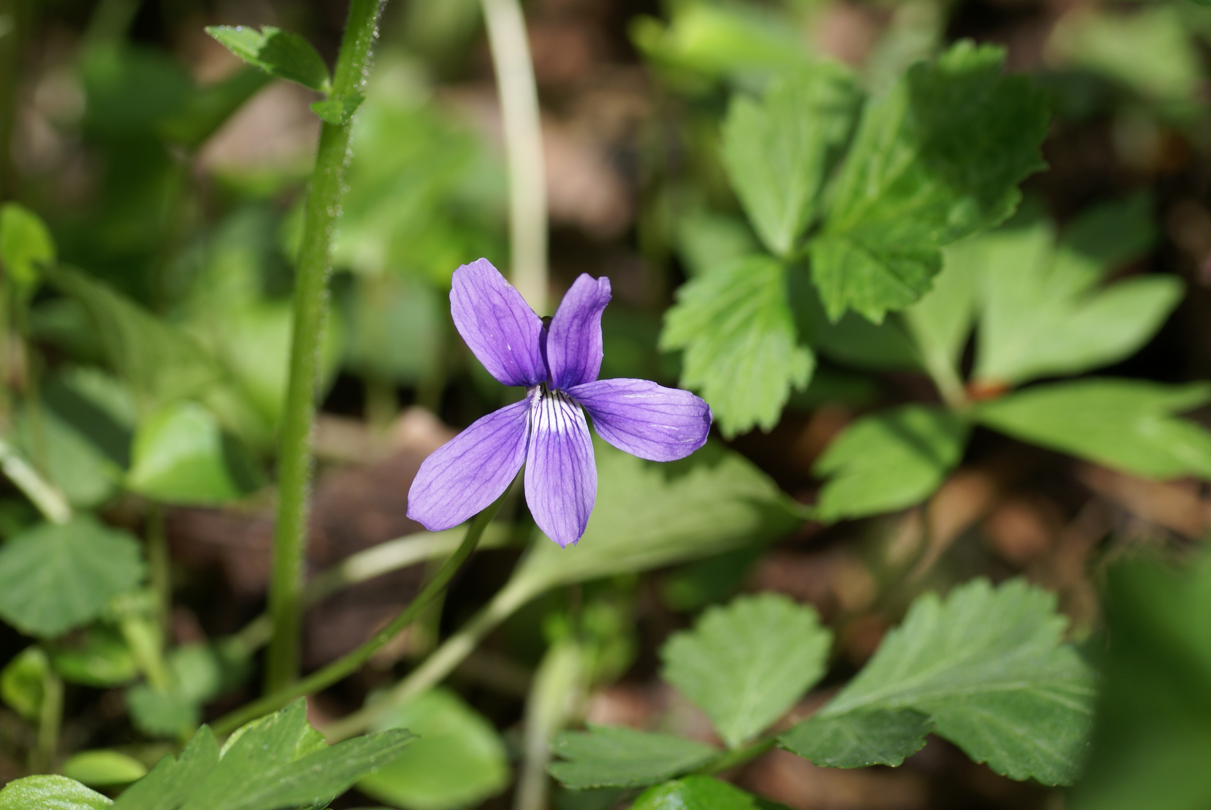 Plant species Viola uliginosa in Swedish province Uppland